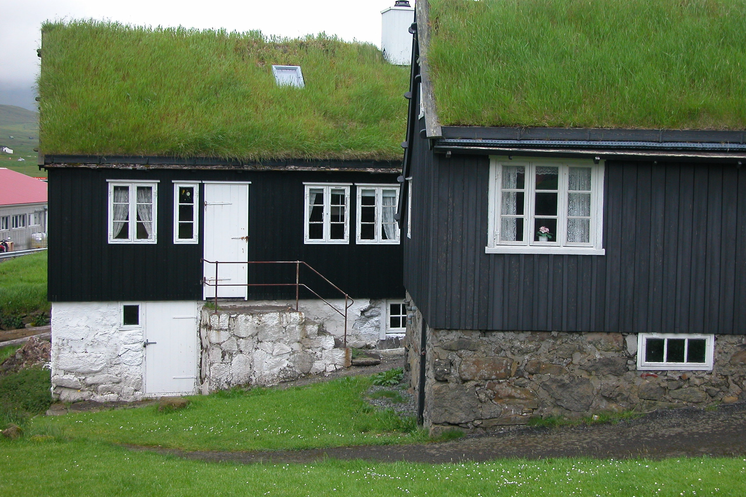 Old houses in Norðragøta on Eysturoy, Faroe Islands.